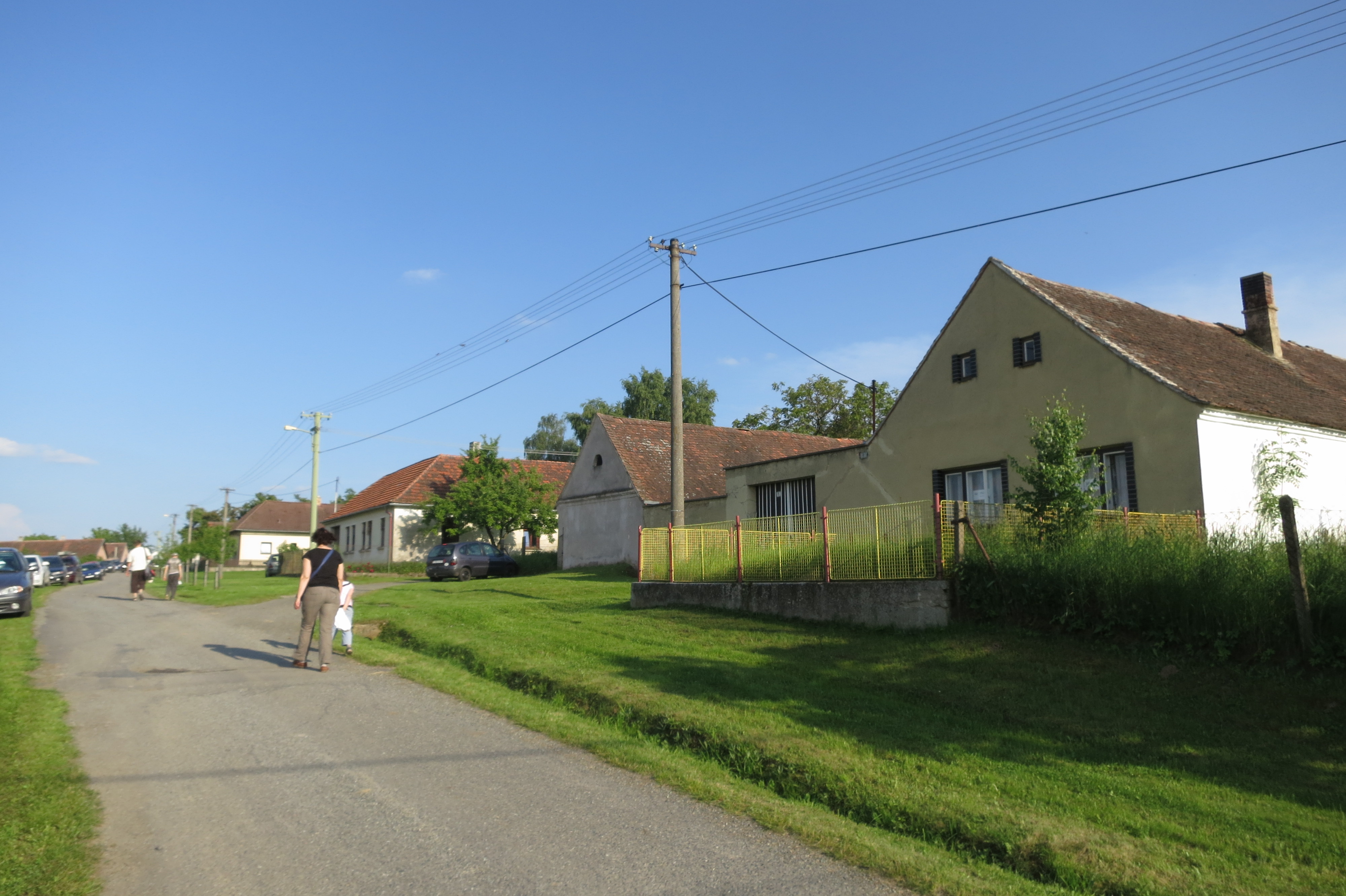 Center of Panenská, Třebíč District.